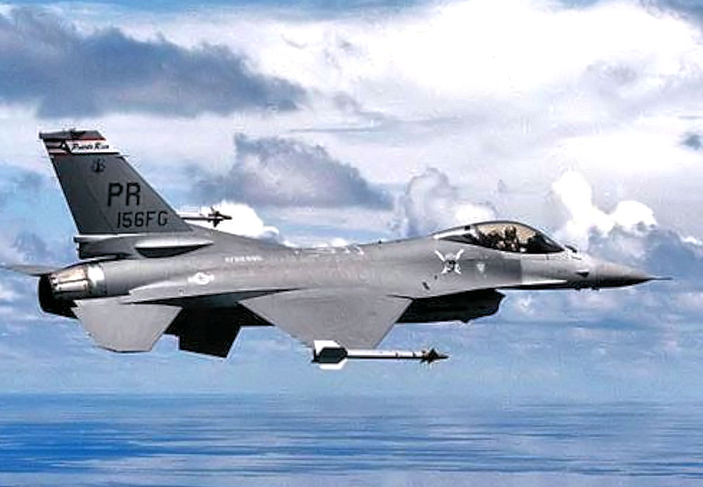 198th Fighter Squadron General Dynamics F-16A Block 15N Fighting Falcon 82-0995 Retired to AMARC Mar 6, 1998 as FG0425. Still on AMARC inventory Jan 15, 2008